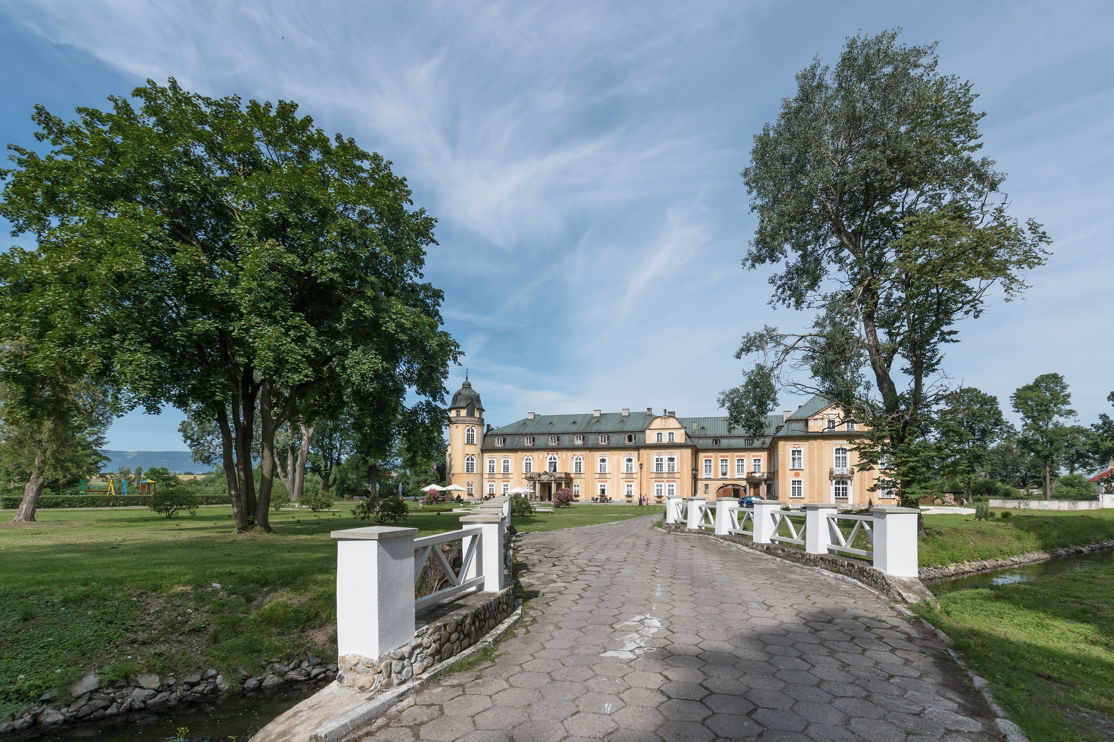 Palace in Żelazno